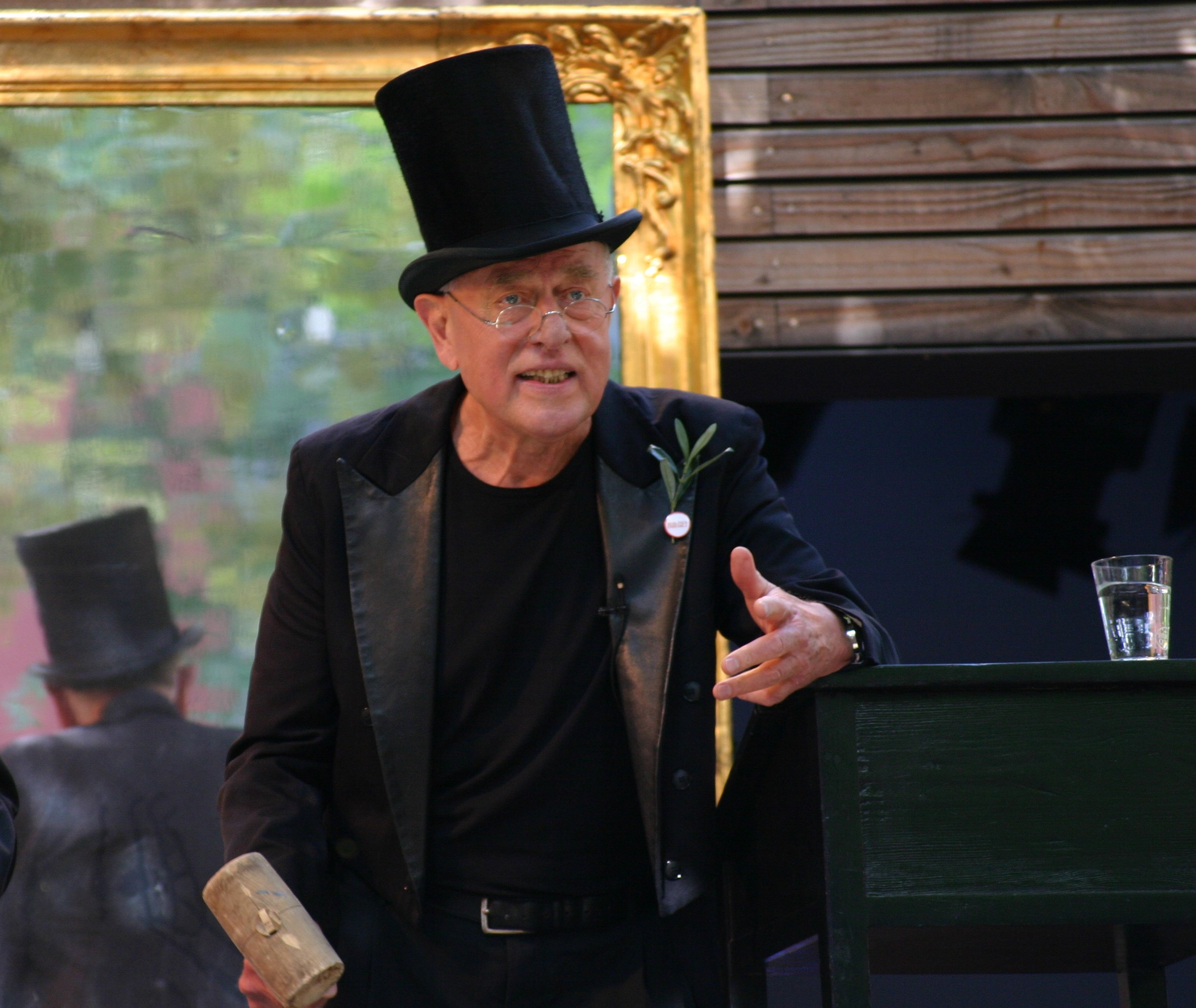 Claus Peymann during an auction in the courtyard of the Berliner Ensemble.